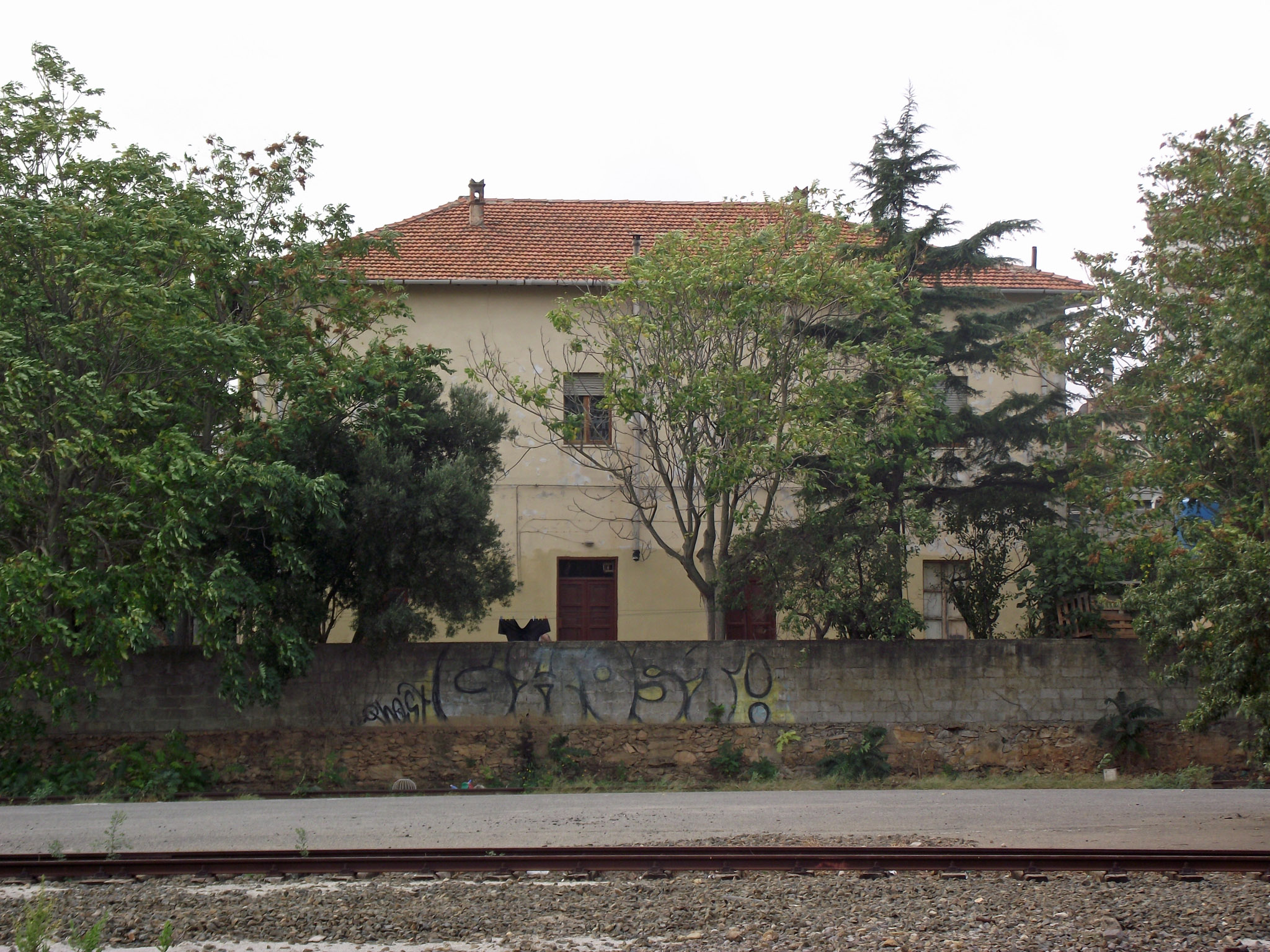 The former FMS railway station of Iglesias, Sardinia, Italy, seen from the neighbouring FS railway station.